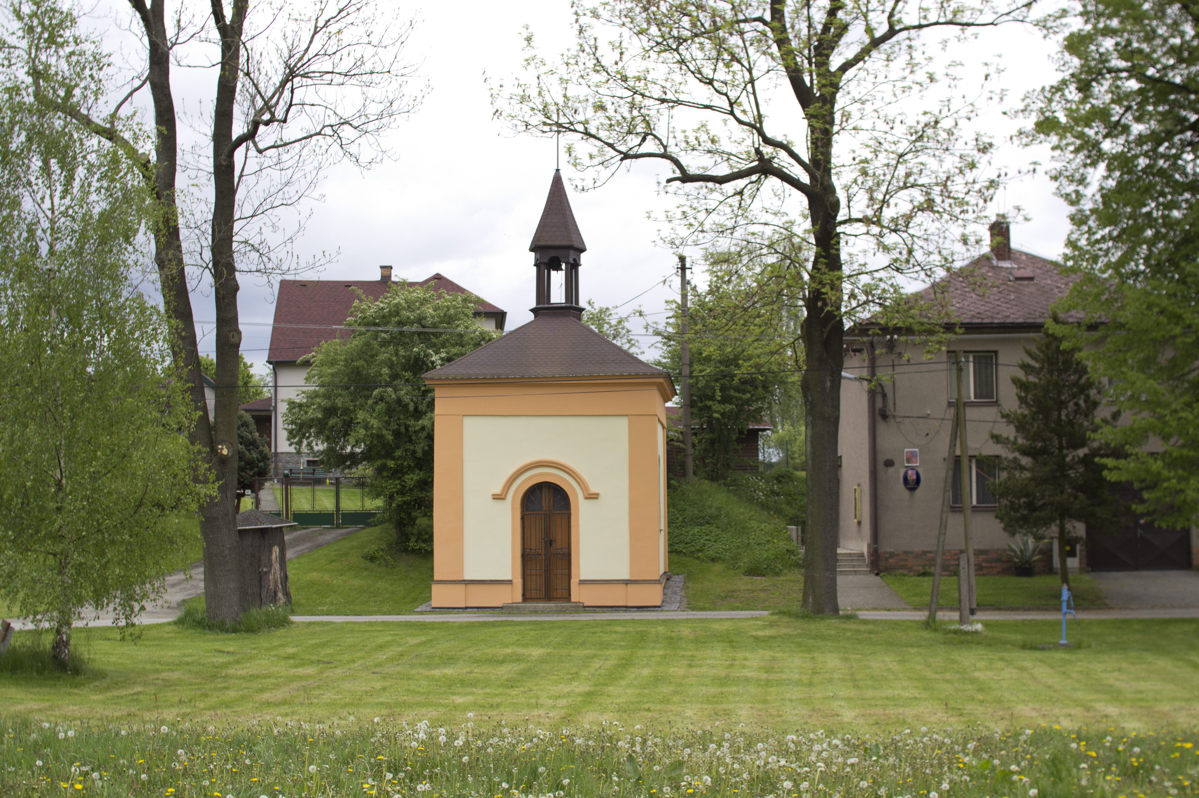 Krátká Ves, Havlíčkův Brod Distrct, Vysočina Region, Czech Republic